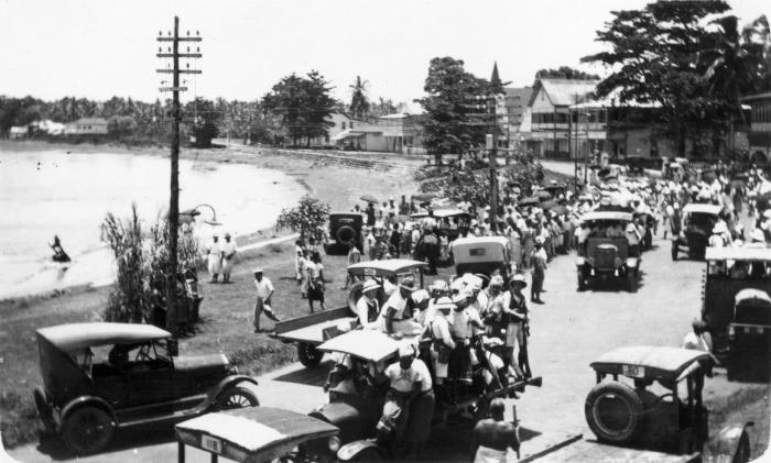 Mau prisoners and NZ marines in Apia, Samoa 1930 Gagana Samoa: Sa fa'apagota e Maligi Niu Sila tagata o le Mau, i Apia, 1930